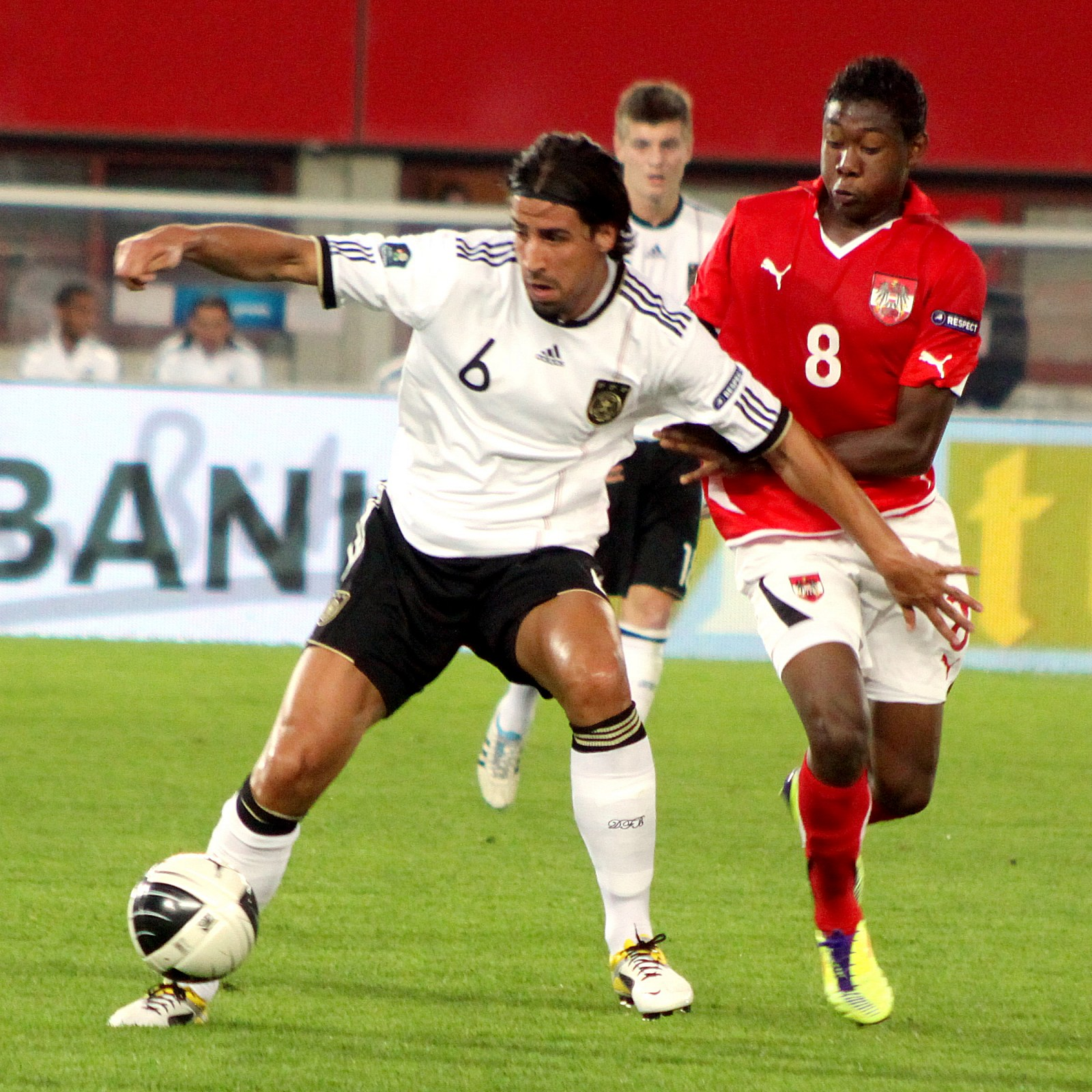 Qualifying for the UEFA Euro 2012 Austria (red shirt) vs. Germany (white Shirt) 1:2 (0:1) at 2011-06-03 in Vienna (Ernst-Happel-Stadion) — The photo shows (fron left to right): Sami Khedira (Real Madrid), David Alaba (TSG 1899 Hoffenheim).